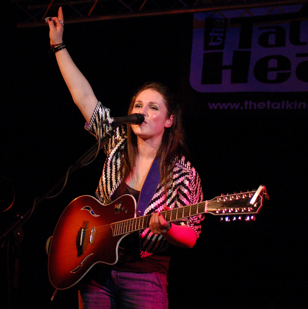 Sandi